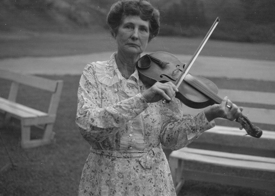 Library of Congress photo of Aunt Samantha Baumgarner, fiddler, banjoist, guitarist from Asheville, North Carolina.